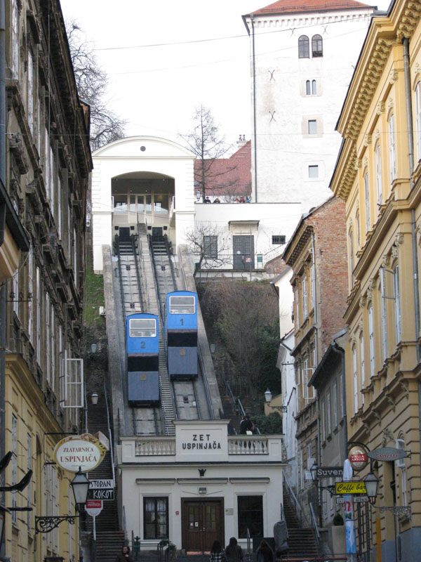 Zagreb Funicular